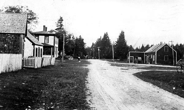 Postcard showing road through Pennfield Corner with houses on both sides, ca. 1930. Provincial Archives of New Brunswick number P46-109.